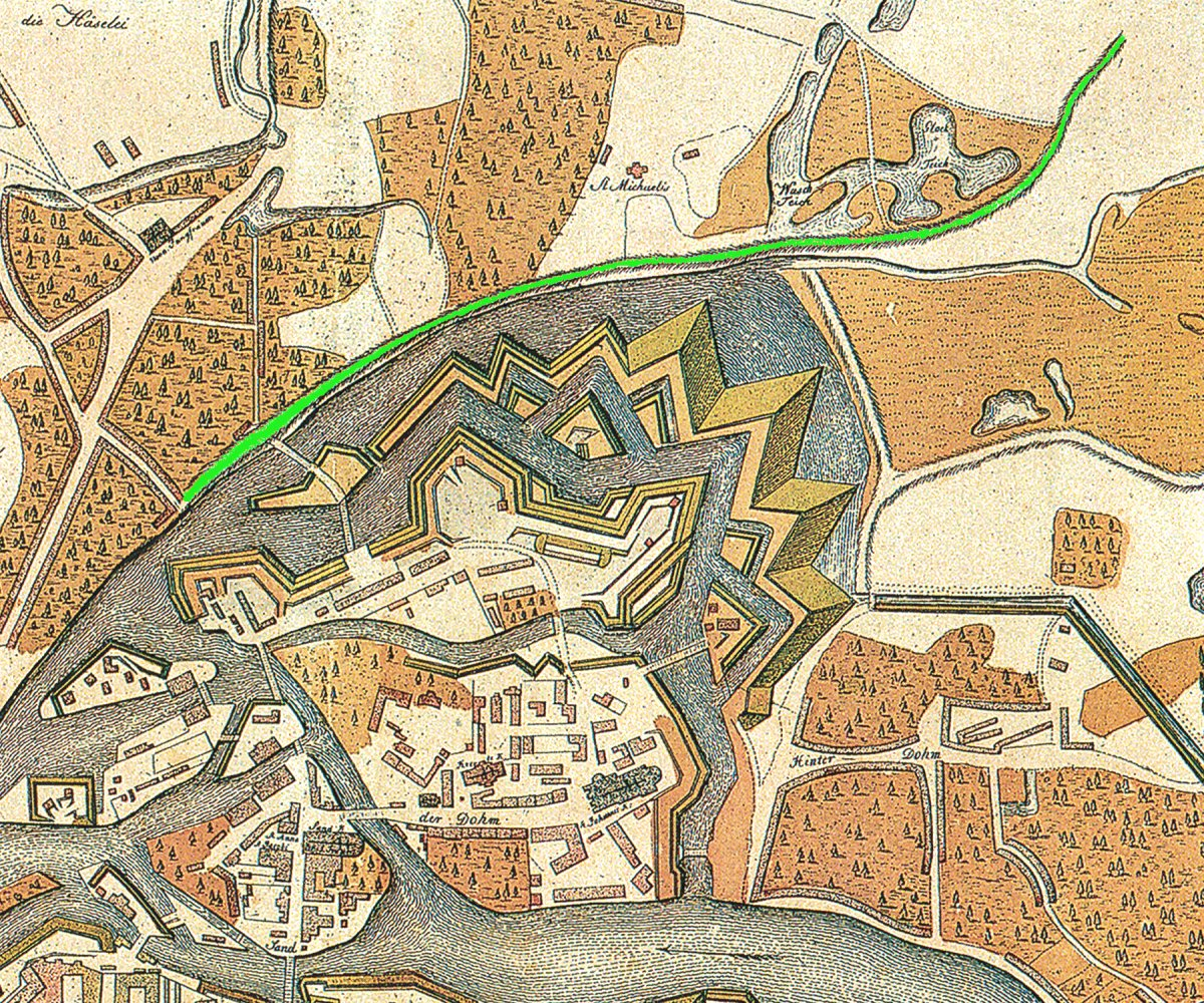 Part of northern Wrocław (Breslau) in 1807 with added green line: Am Lehmdamm, today B.Prusa Street